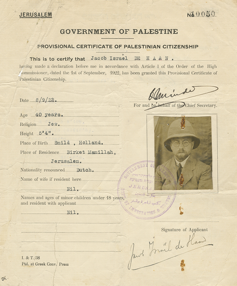 Provisional citizenship certificate of Jacob Israel De Haan